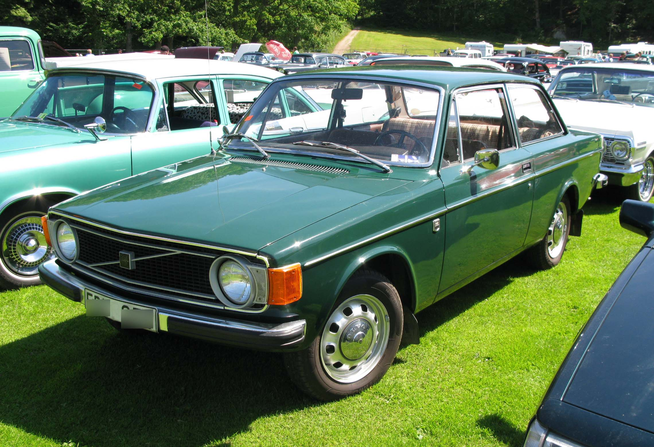 1973 Volvo 142. Event: Nostalgia festival, Ronneby 2012